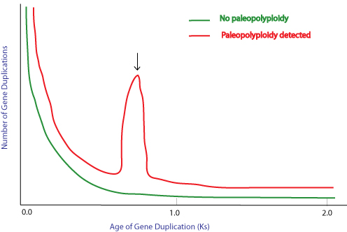 The paleopolyploidy is identified as a peak on the graph.